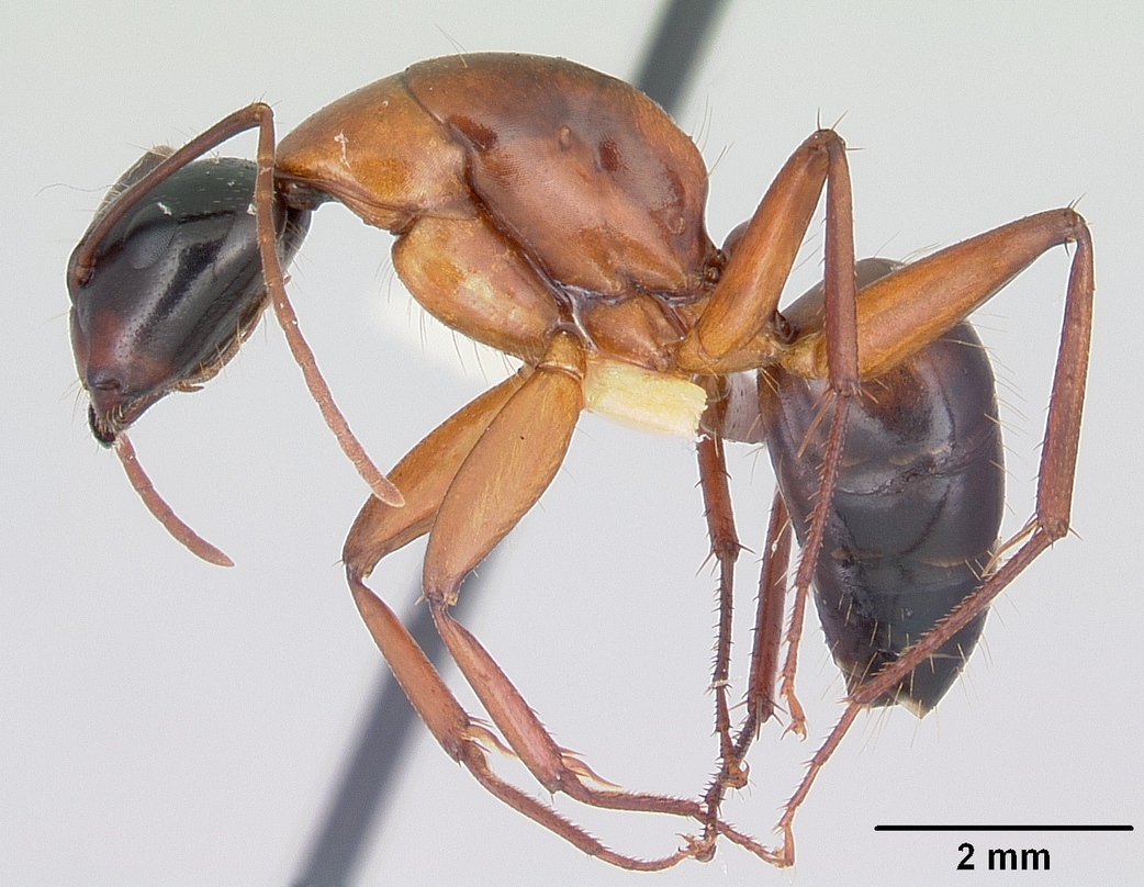 Profile view of ant Camponotus texanus specimen casent0104764.